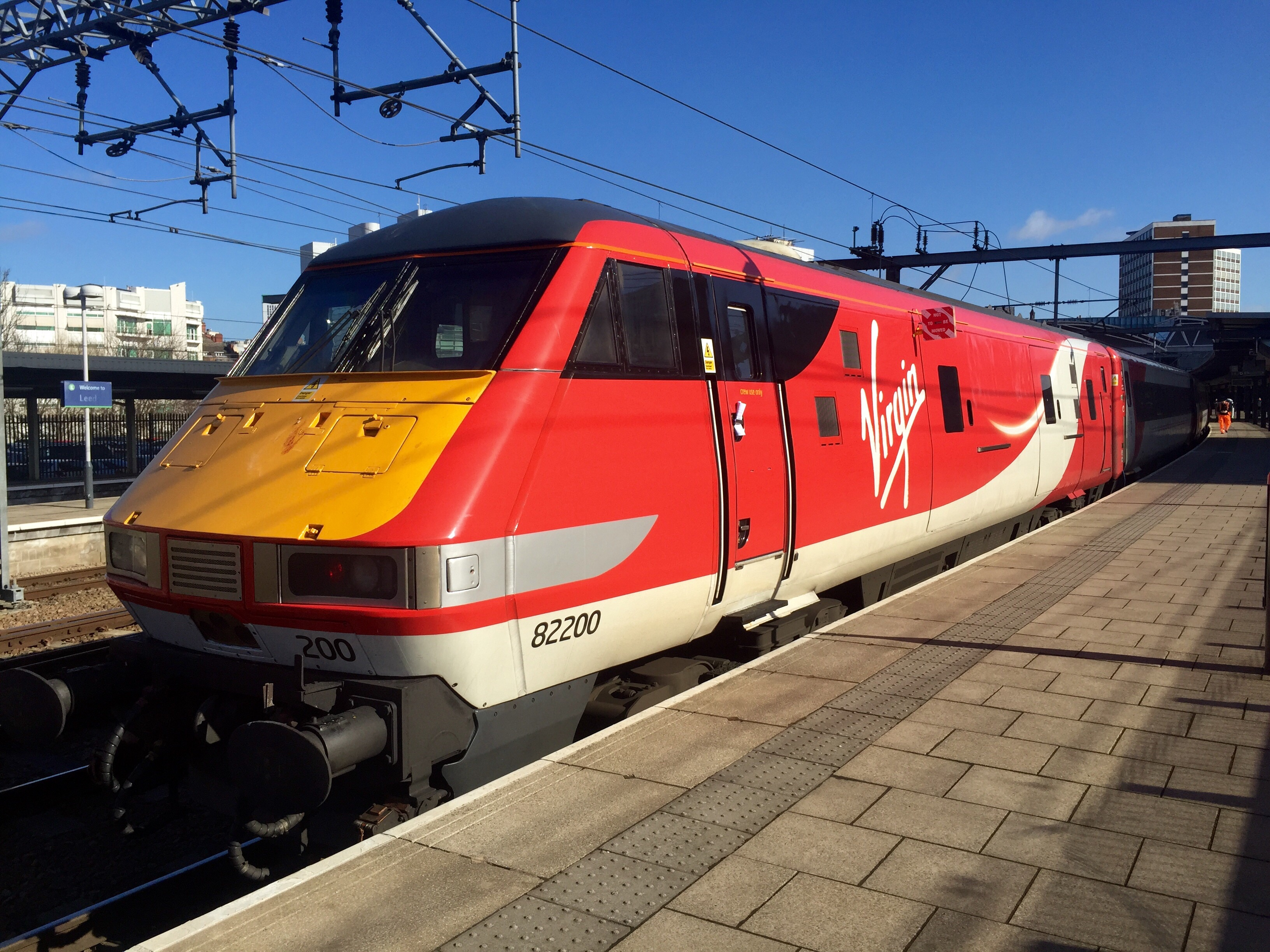 Virgin Trains East Coast at Leeds